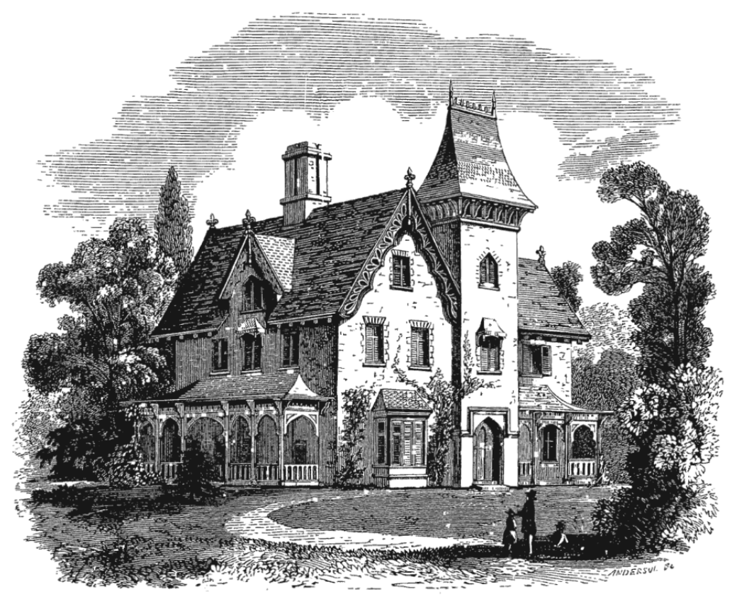 Drawing of Headley House, Design No. 14 "A Cottage in the Rhine style" which served as the frontispiece for his first edition of Cottage Residences.